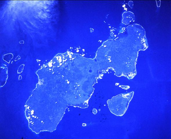 The dumbbell-shaped, E-W-trending Jolo island contains numerous pyroclastic cones and craters, some of which are visible in this Space Shuttle image with north to the upper left. The island is about 60 km wide in an E-W direction; its largest city, Jolo, lies on the northern coast (left-center). The isolated location of Jolo at the SW end of the Philippines archipelago as well as political unrest have inhibited geological studies of the volcano.